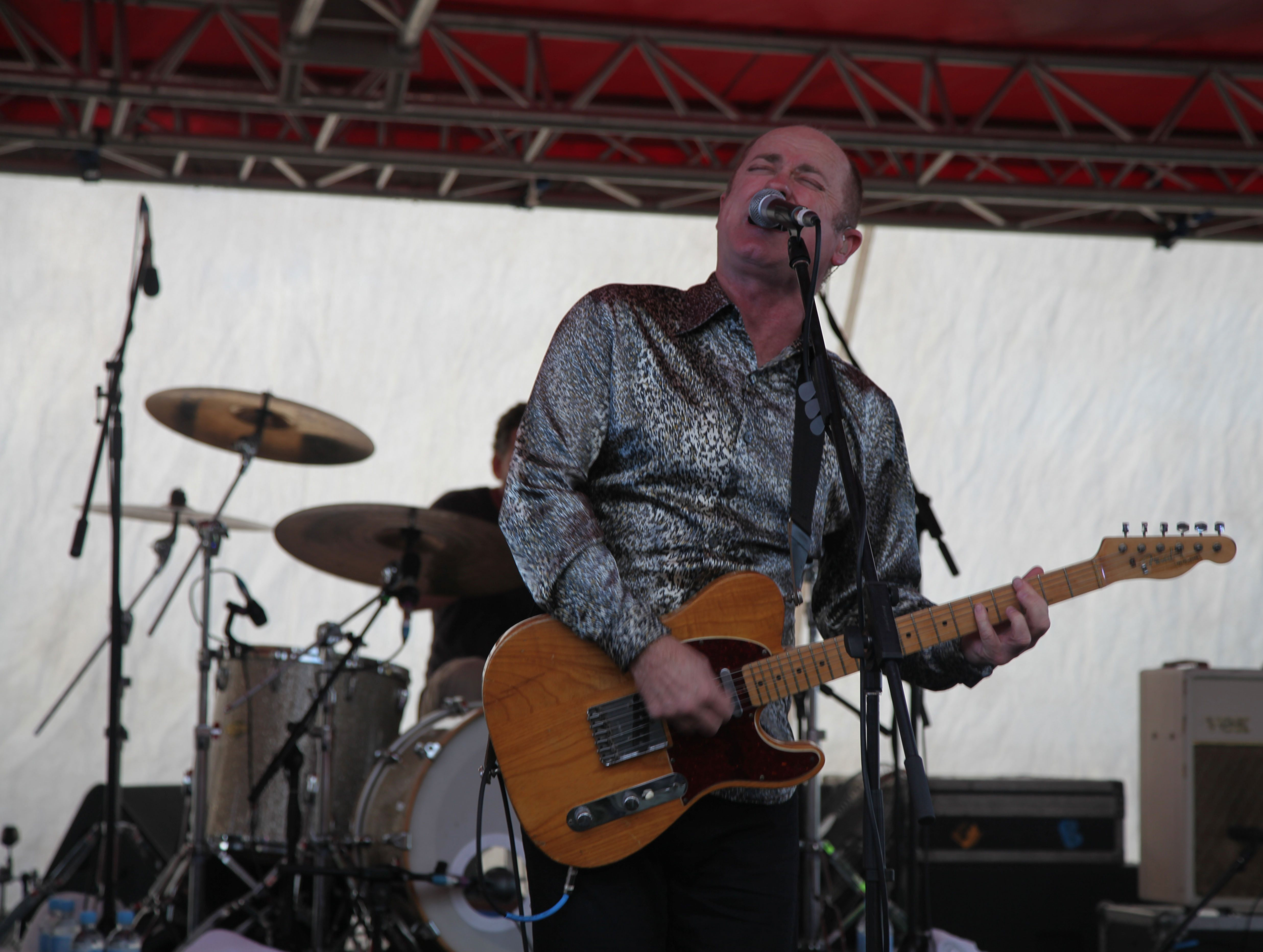 Dave Faulkner out the front of the Hoodoo Gurus Apr 29 2012 at Rottnest Island